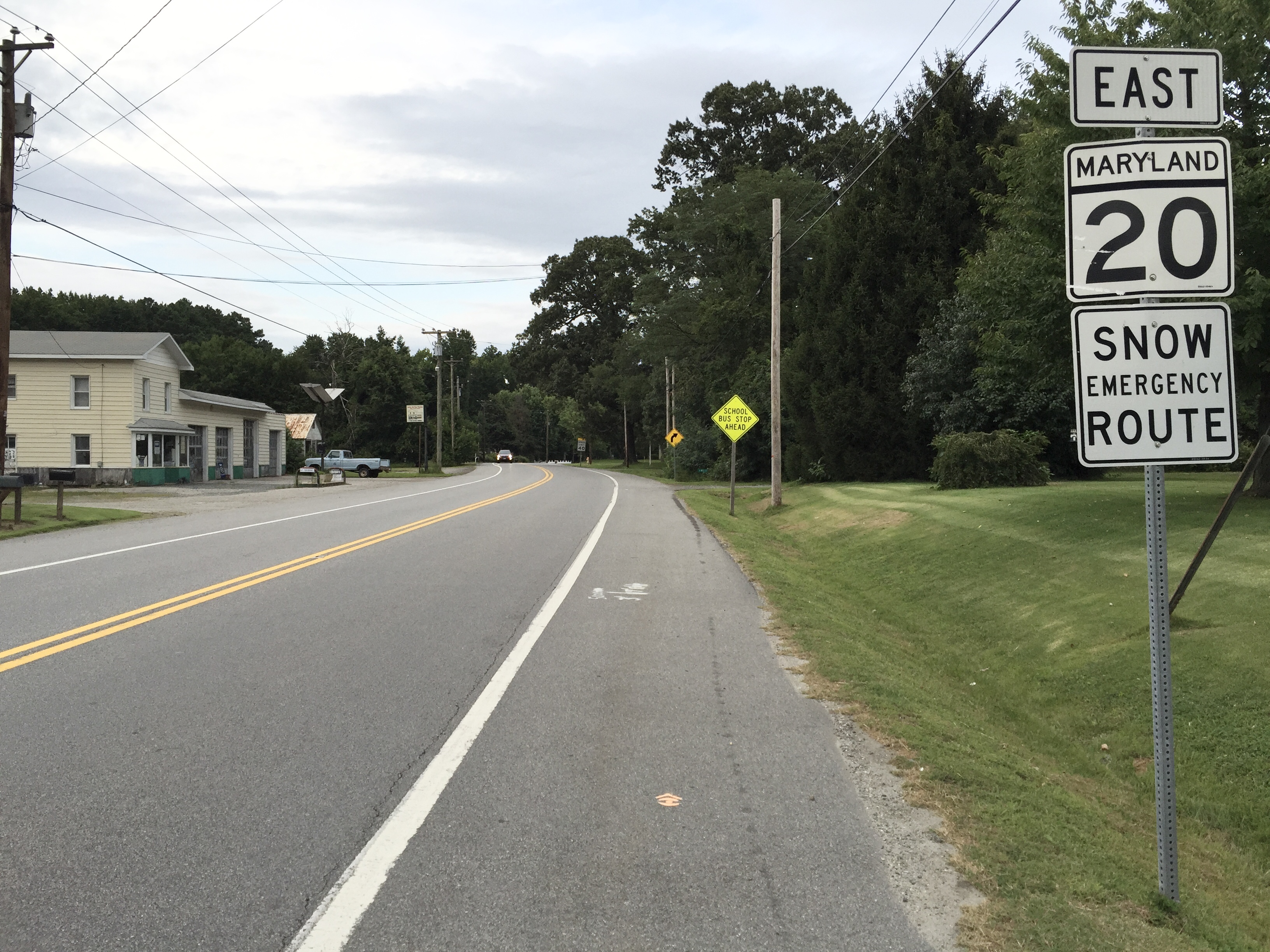 View east along Maryland State Route 20 (Rock Hall Road) at Maryland State Route 288 (Crosby Road) in Sharpstown, Kent County, Maryland